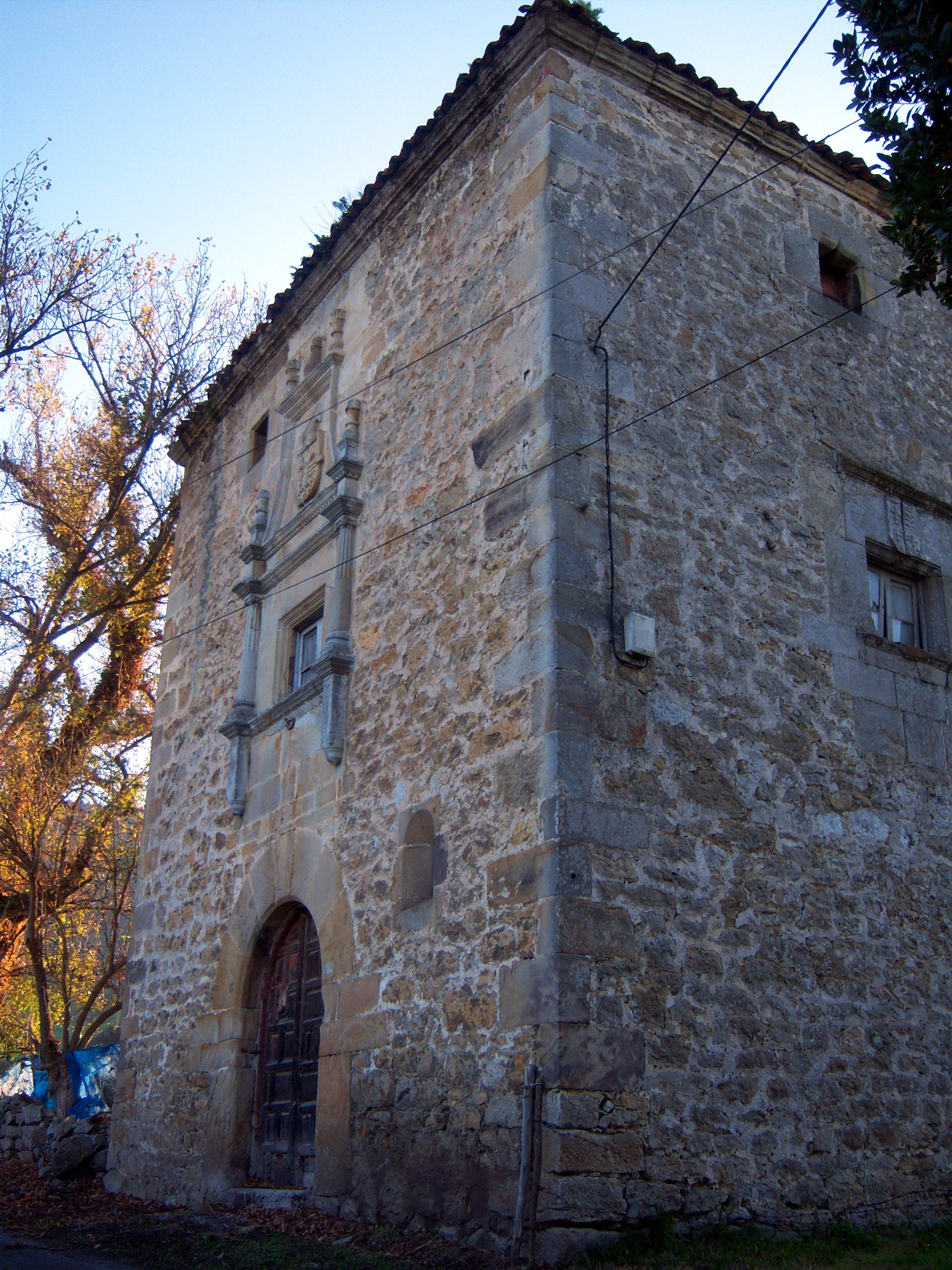 The Tower of Alvarado, in the town of Heras in the municipality of Medio Cudeyo (Cantabria, Spain)